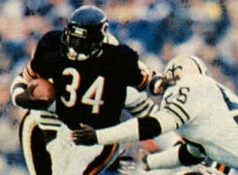 Chicago Bears' running back Walter Payton rushing the ball against the New Orleans Saints on October 7, 1984, breaking the NFL's all-time rushing record.